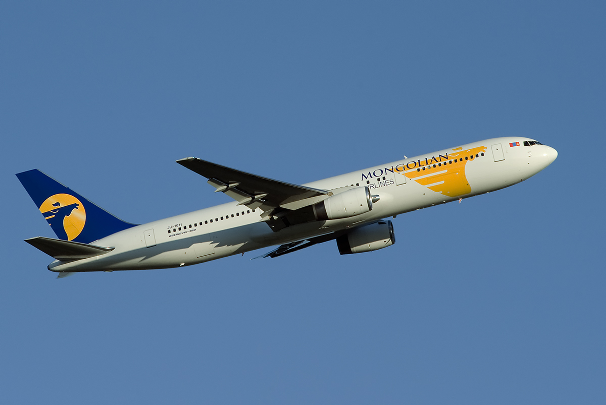 "Mongolian Airlines" B-767-300 JU-1011